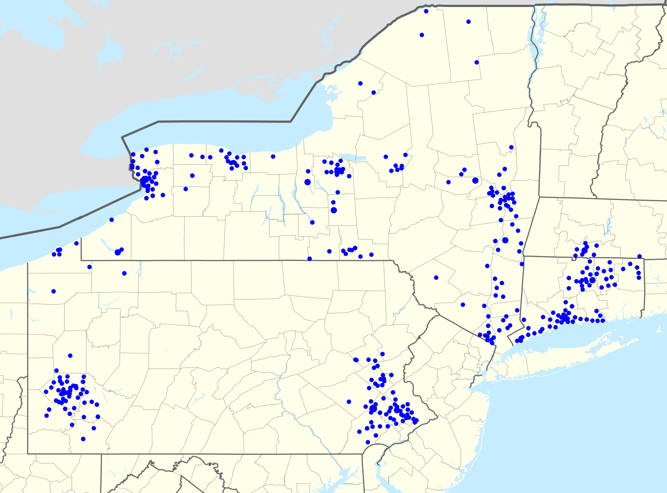 Footprint of First Niagara Bank branches within the United States, according to the FDIC as of March 2013.